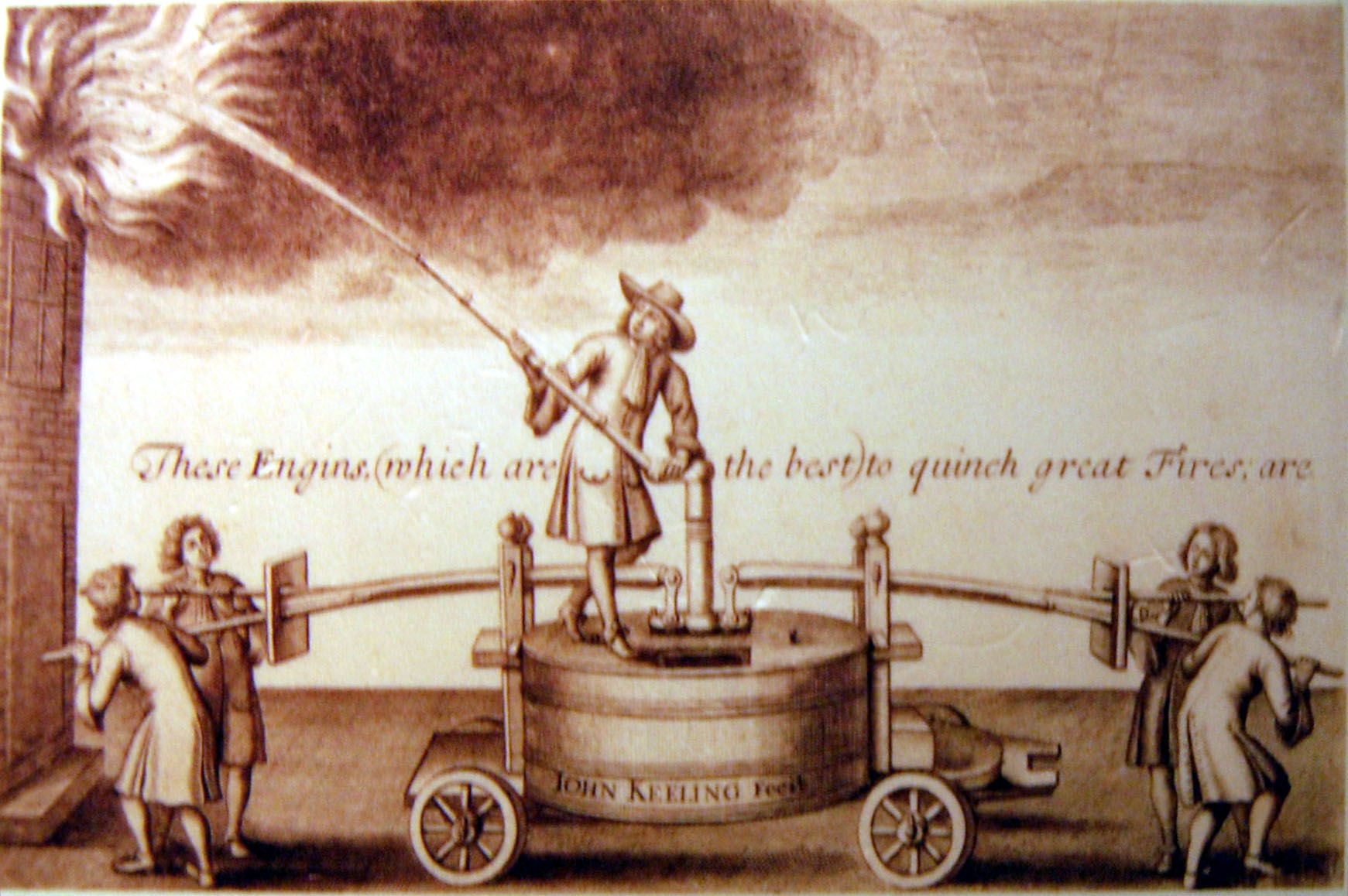 Illustration from the trade card of John Keeling of Blackfriars (1670s), showing his fire engine in use. Four men pumped water into a hose at the center. Inscription reads "These Engins (which are the best) to quinch great fires, are ..." with the subtitle "John Keeling Fecit" (John Keeling made it).